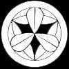 Takenaka clan crest 竹中氏の家紋